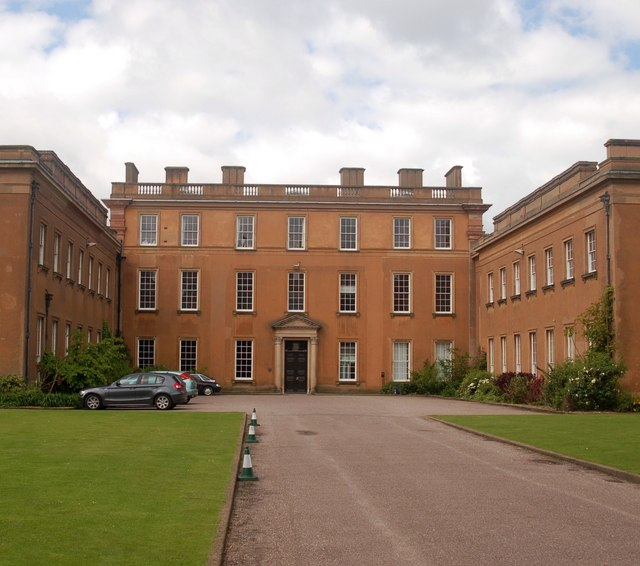 Home Sweet Home. Main Entrance to Himley Hall, Edward the VIII spent his last weekend here, as King before he abdicated, in favour of Mr's Simpson. The last "Earl of Dudley" died in 1969, hence the line ceased.